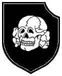 Symbol of the 3rd SS Division Totenkopf